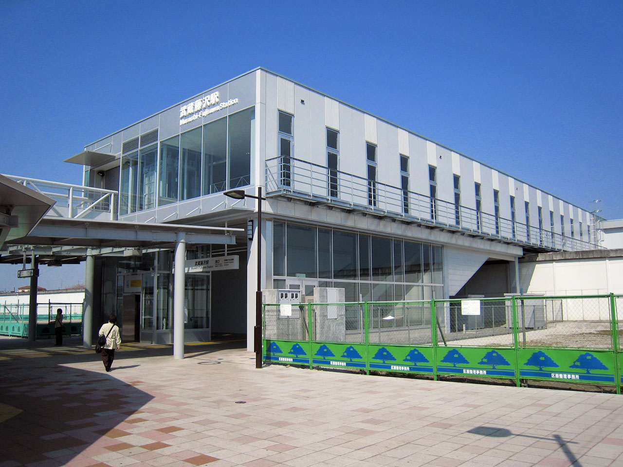 West entrance of Musashi-Fujisawa Station on the Seibu Ikebukuro Line